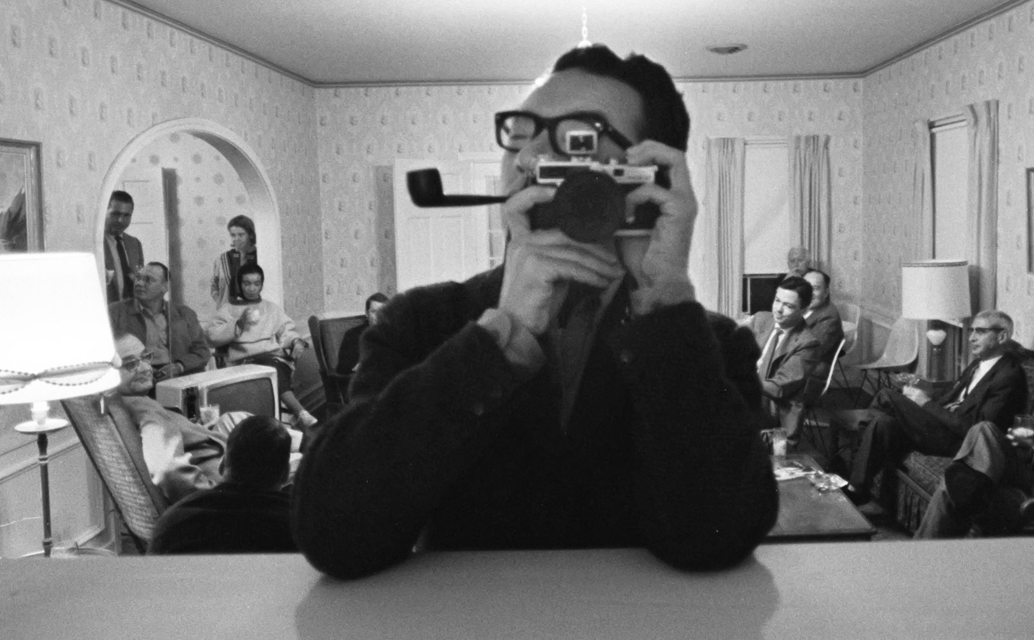 Yoichi Okamoto, the official White House photographer, photographed himself in the mirror at the L.B.J. Ranch in Stonewall, Tex. Jan. 2, 1964.